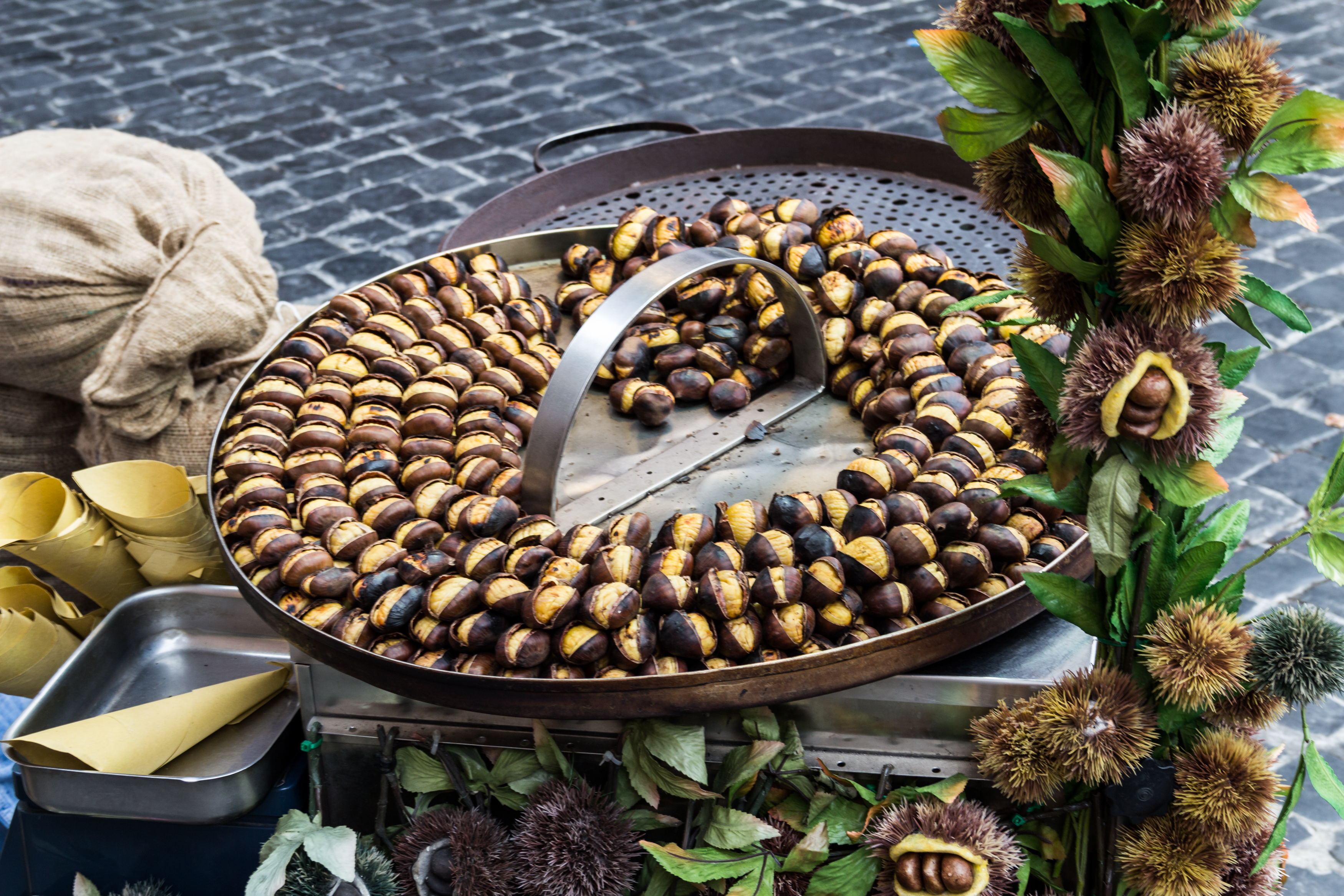 Chestnuts at the Piazza di Spagna in Rome, Italy